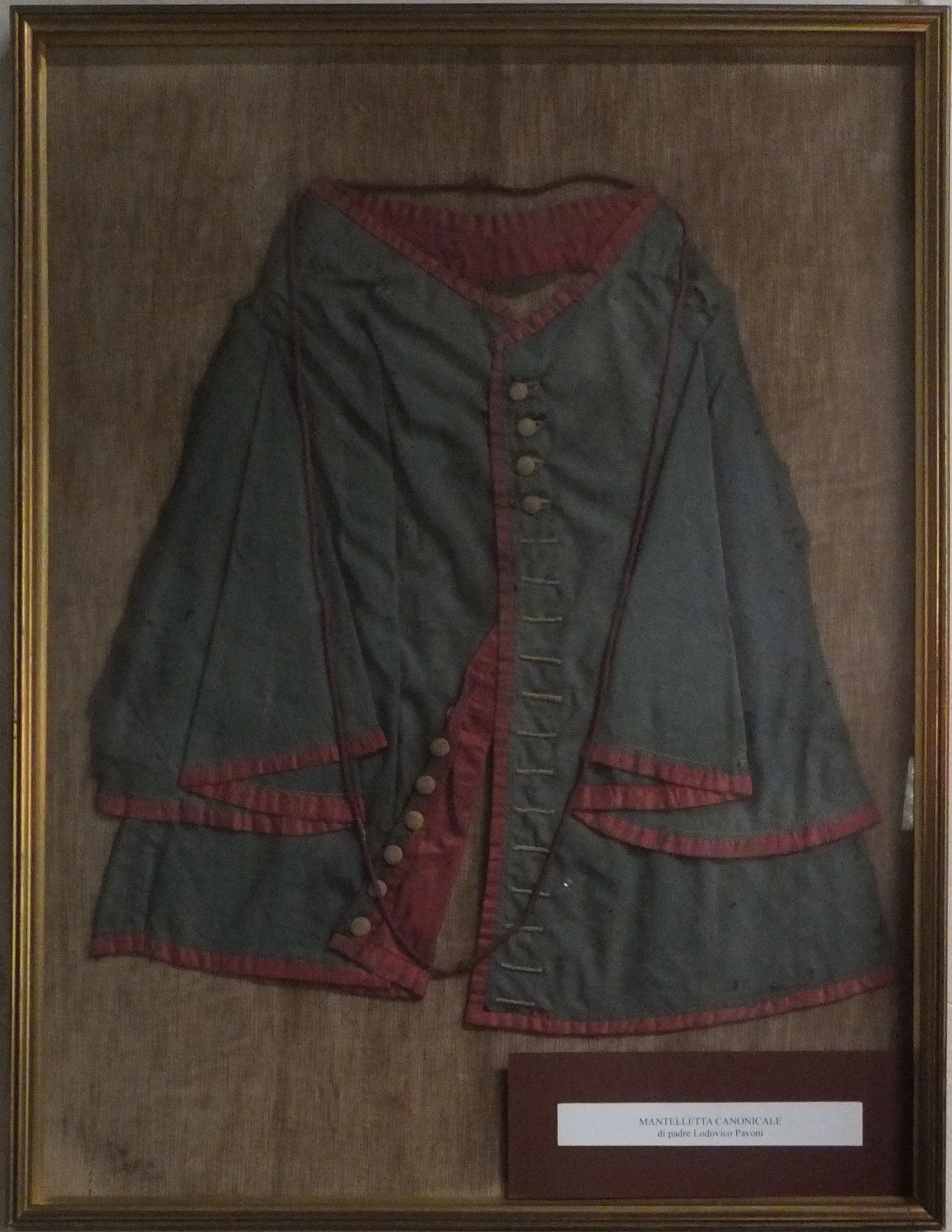 The canonical cloak of Lodovico Pavoni, exposed in the museum of the church of the Immaculate of Brescia